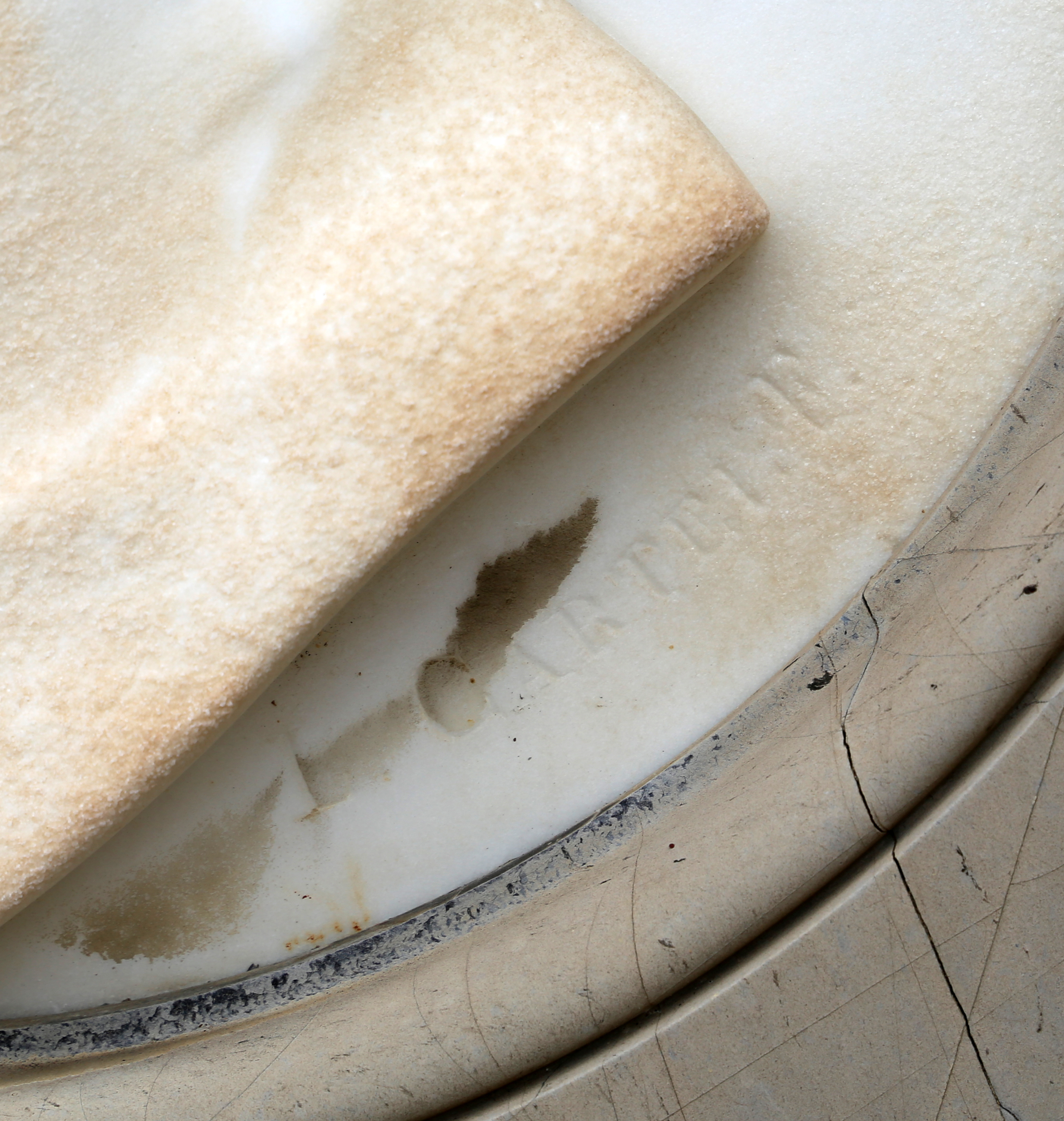 Trespiano cemetery